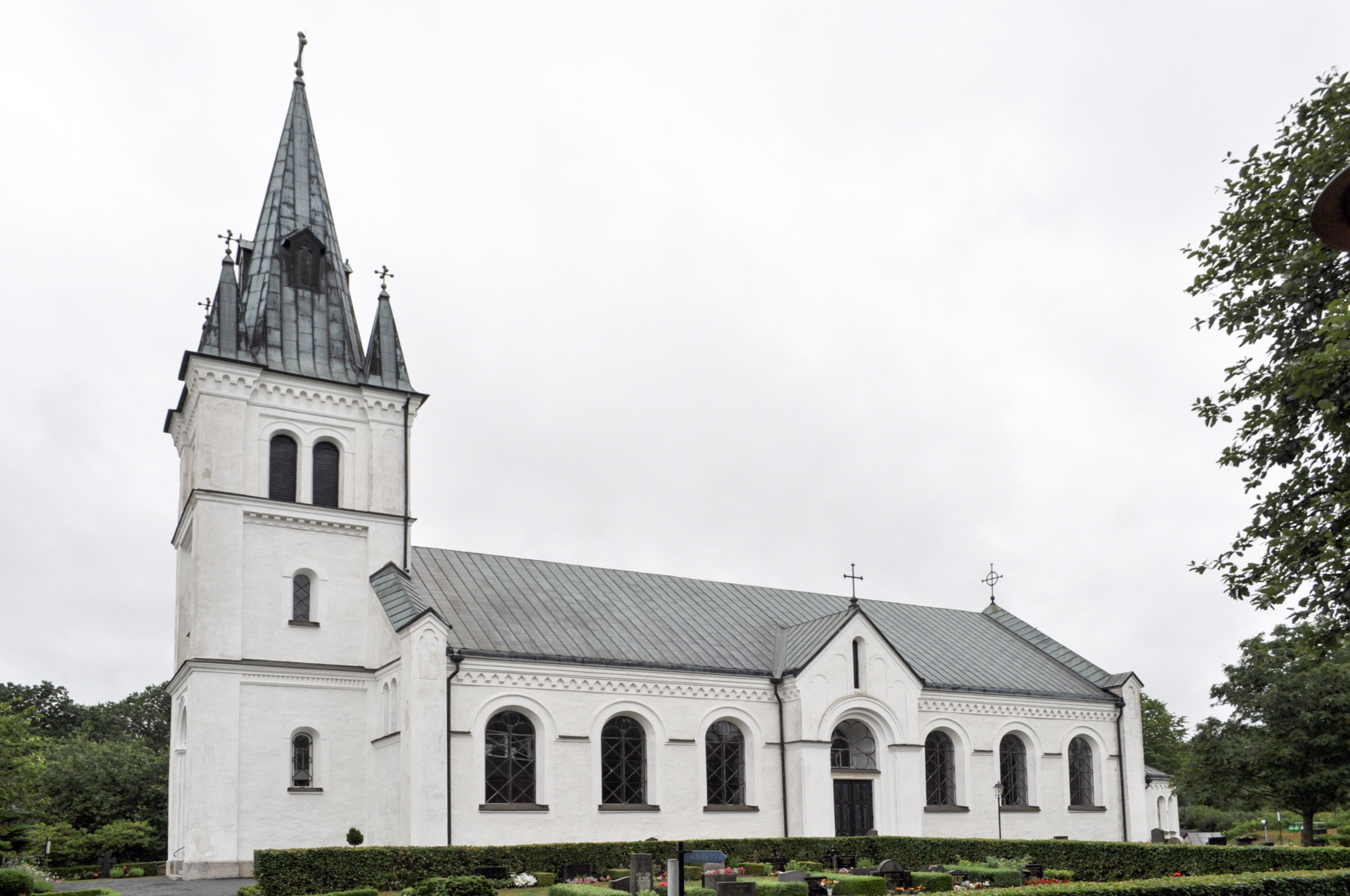 Ringamåla church - kyrka